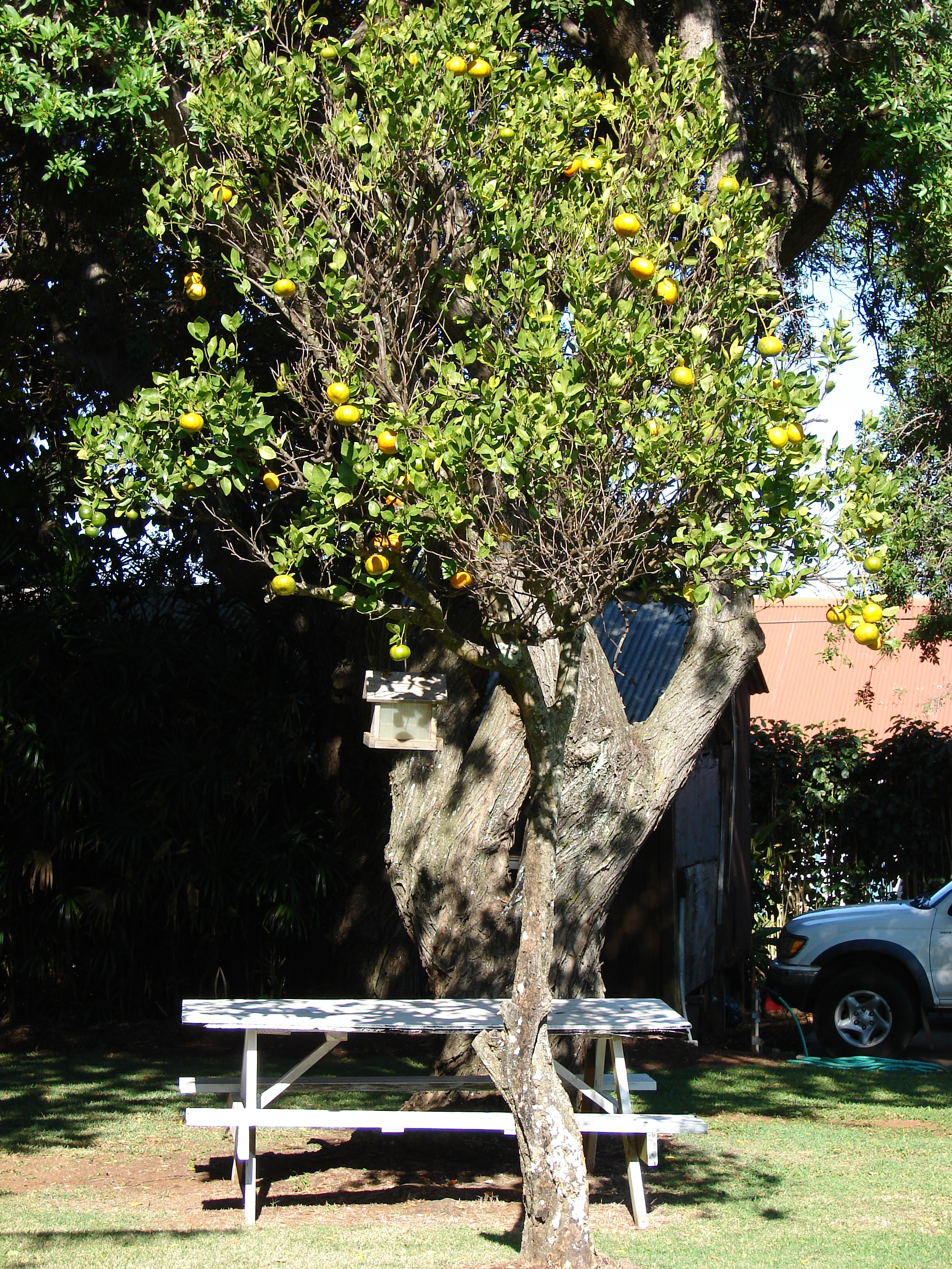 Citrus reticulata (in fruit). Location: Maui, Makawao